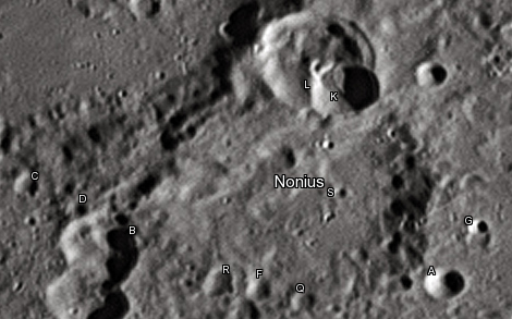 Nonius lunar crater as seen from Earth with satellite craters labeled